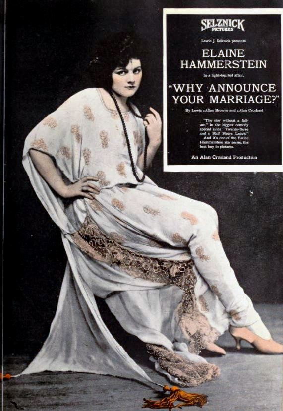 Advertisement for the American comedy drama film Why Announce Your Marriage? (1922) with Elaine Hammerstein, from the insert at page 18 of the January 28, 1922 Exhibitors Herald.